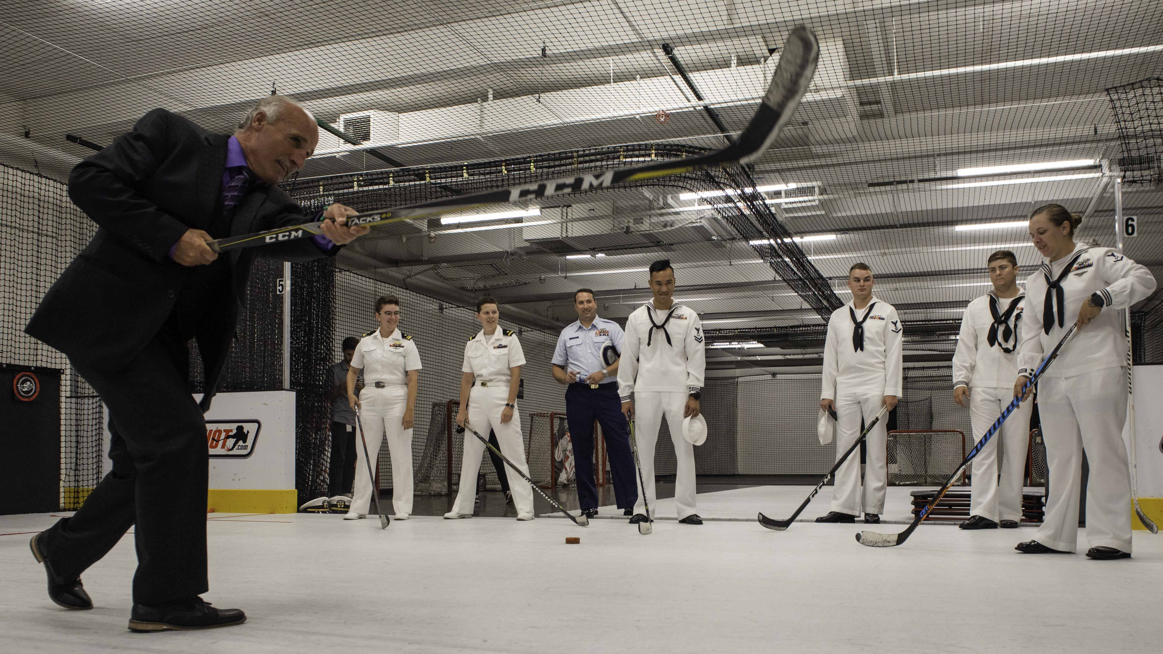 LOS ANGELES (Aug. 29, 2019) Daryl Evans, LA Kings alumni and commentator, teaches Sailors assigned to the guided missile-destroyer USS Spruance (DDG 111) how to shoot a hockey puck while touring Toyota Sports Center during Los Angeles Fleet Week. LAFW is an opportunity for the American public to meet their Navy, Marine Corps and Coast Guard teams and experience America's sea services. During fleet week, service members participate in various community service events, showcase capabilities and equipment to the community and enjoy the hospitality of Los Angeles and its surrounding areas. (U.S. Navy photo by Mass Communication Specialist 3rd Class Hector Carrera/Released) 190829-N-WY048-1044